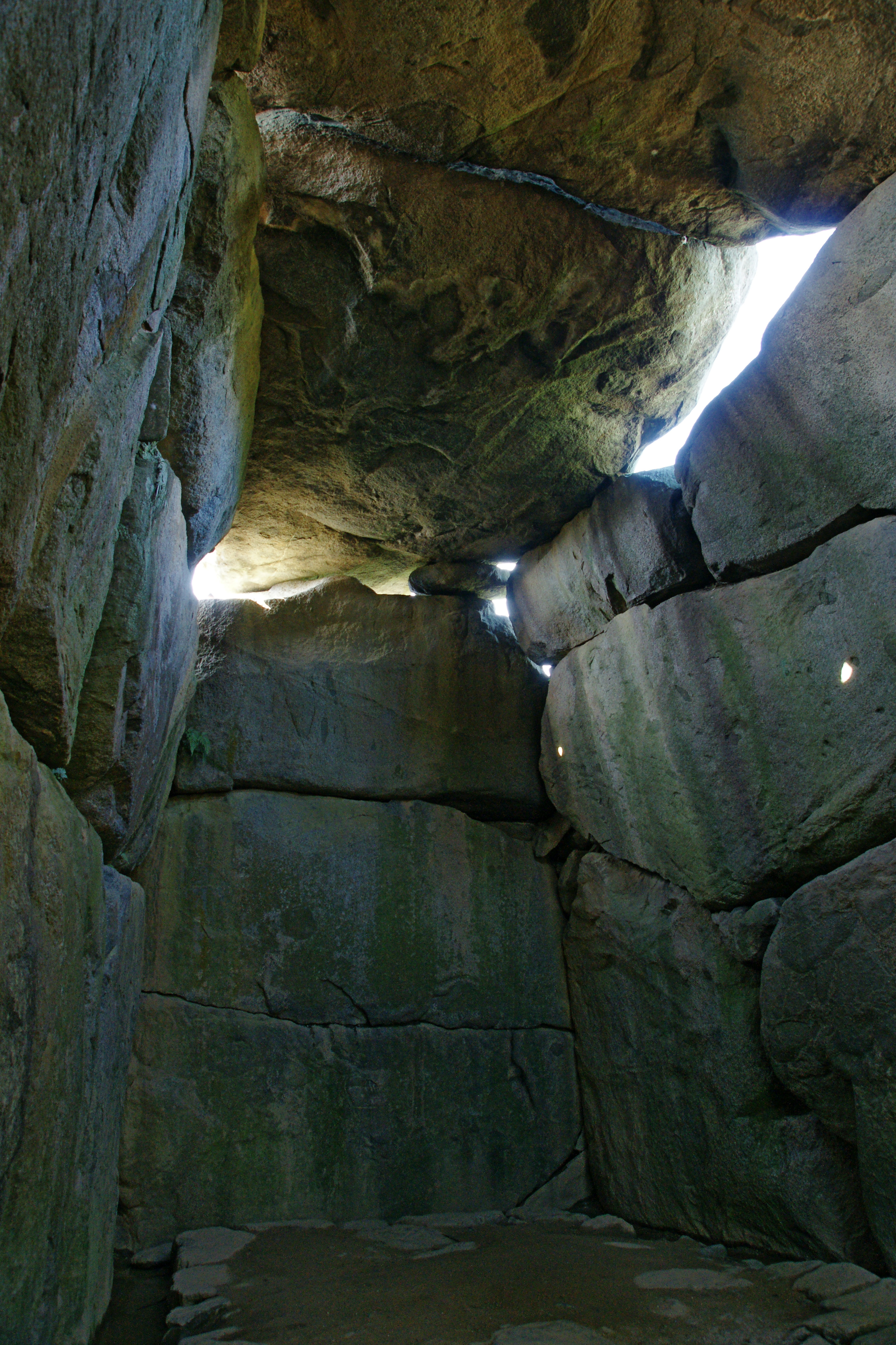 Ishibutai Kofun in Asuka, Nara Prefecture, Japan.